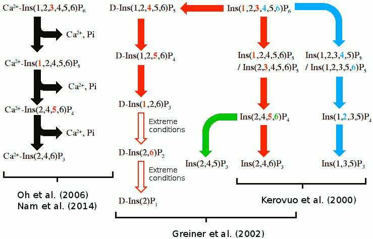 Suggested β-propeller phytase (BPP) hydrolysis routes. "Extreme conditions" means extended incubation time and/or increased BPP concentration relative to phytate concentration, which is a substrate for BPP. This picture is based on the following studies: Kerovuo, J; Rouvinen, J; Hatzack, F (2000-12-15). "Analysis of myo-inositol hexakisphosphate hydrolysis by Bacillus phytase: indication of a novel reaction mechanism". Biochemical Journal. 352 (Pt 3): 623–628. ISSN 0264-6021. PMC 1221497 Freely accessible. PMID 11104666. Oh, Byung-Chul; Kim, Myung Hee; Yun, Bong-Sik; Choi, Won-Chan; Park, Sung-Chun; Bae, Suk-Chul; Oh, Tae-Kwang (2006). "Ca2+-Inositol Phosphate Chelation Mediates the Substrate Specificity of β-Propeller Phytase". Biochemistry. 45 (31): 9531–9539. ISSN 0006-2960. Greiner, Ralf; Larsson Alminger, Marie; Carlsson, Nils-Gunnar; Muzquiz, Mercedes; Burbano, Carmen; Cuadrado, Carmen; Pedrosa, Mercedes M.; Goyoaga, Carmen (2002). "Pathway of Dephosphorylation ofmyo-Inositol Hexakisphosphate by Phytases of Legume Seeds". Journal of Agricultural and Food Chemistry. 50 (23): 6865–6870. ISSN 0021-8561. Nam, Seung-Jeung; Kim, Young-Ok; Ko, Tae-Kyung; Kang, Jin-Ku; Chun, Kwang-Hoon; Auh, Joong-Hyuck; Lee, Chul-Soon; Lee, In-Kyu; Park, Sunghoon (2014-10-28). "Molecular and Biochemical Characteristics of β-Propeller Phytase from Marine Pseudomonas sp. BS10-3 and Its Potential Application for Animal Feed Additives". Journal of Microbiology and Biotechnology. 24 (10): 1413–1420. ISSN 1017-7825.